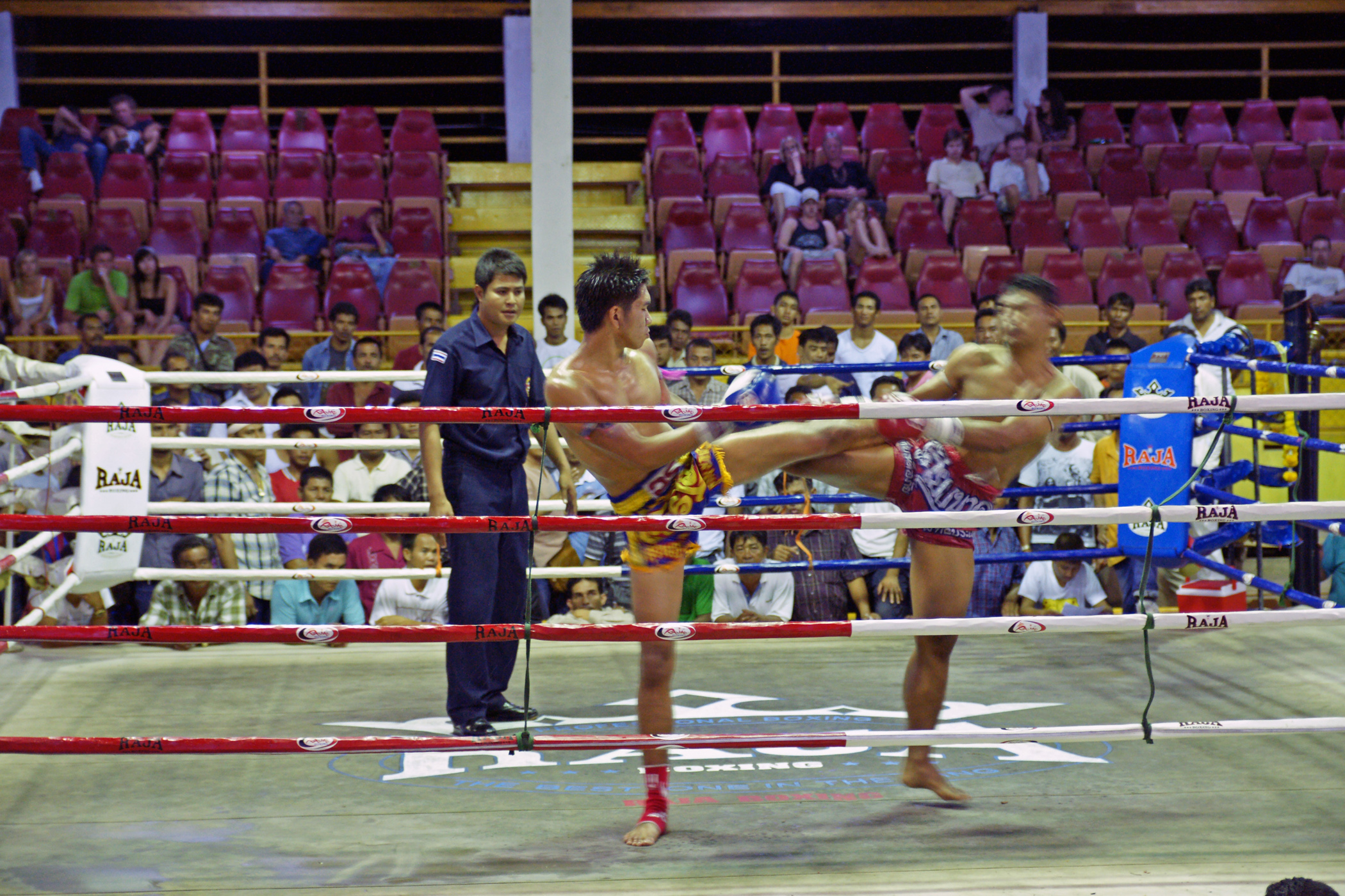 Muay Thai in Aonang Krabi Muay Thai Stadium, Ao Nang, Krabi, Thailand.